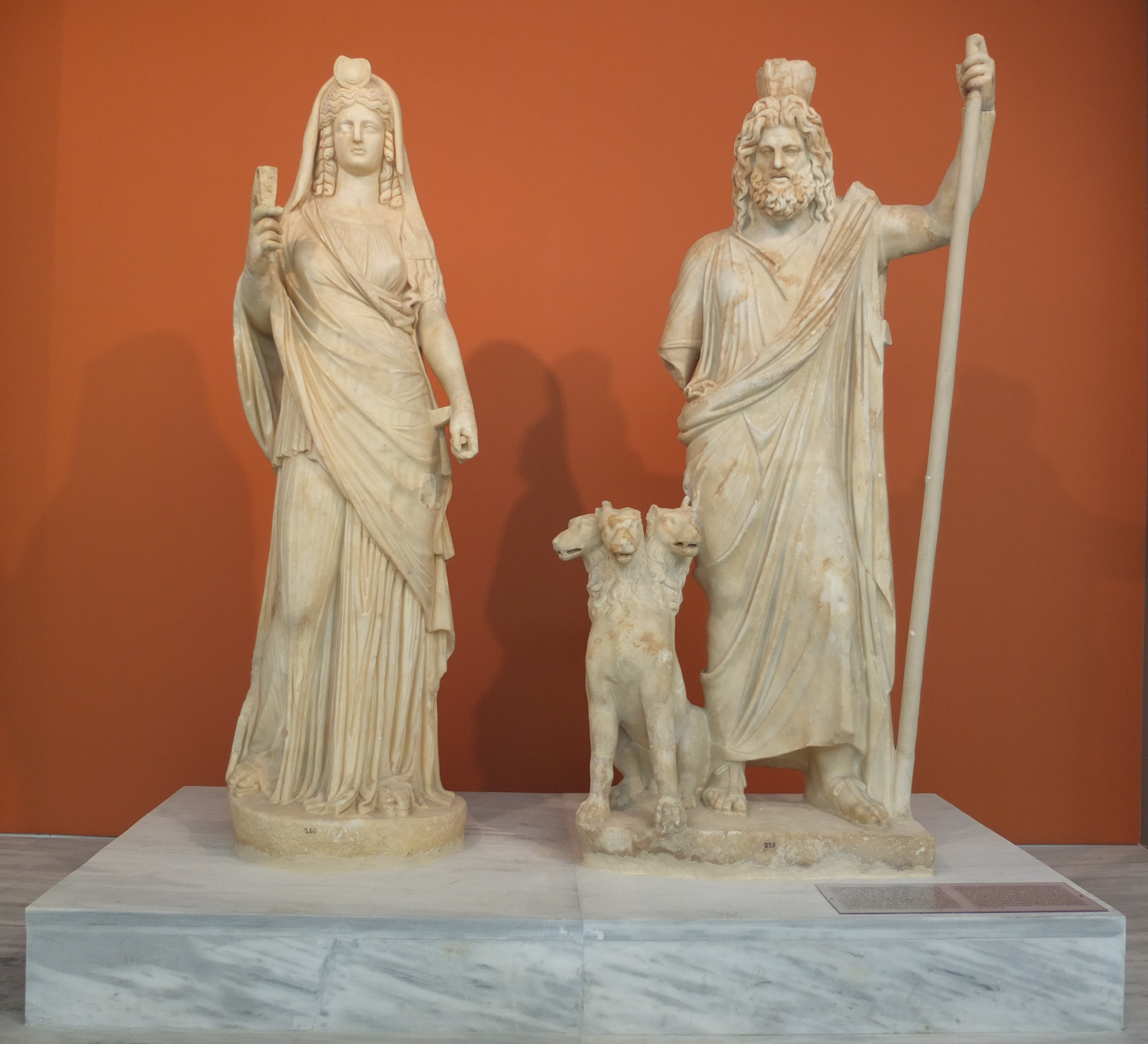 Statues of Isis-Persephone holding a sistrum, Zeus-Serapis and Cerberus. Gortyn, Roman Imperial Times (180 - 190 AD)